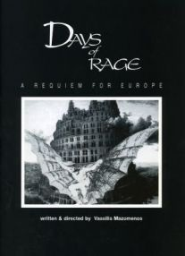 Vassilis Mazomenos movie "Days of Rage , a requiem for Europe".